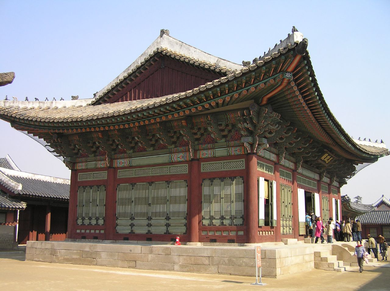 Gangnyeongjeon in Gyeongbokgung, Seoul, South Korea